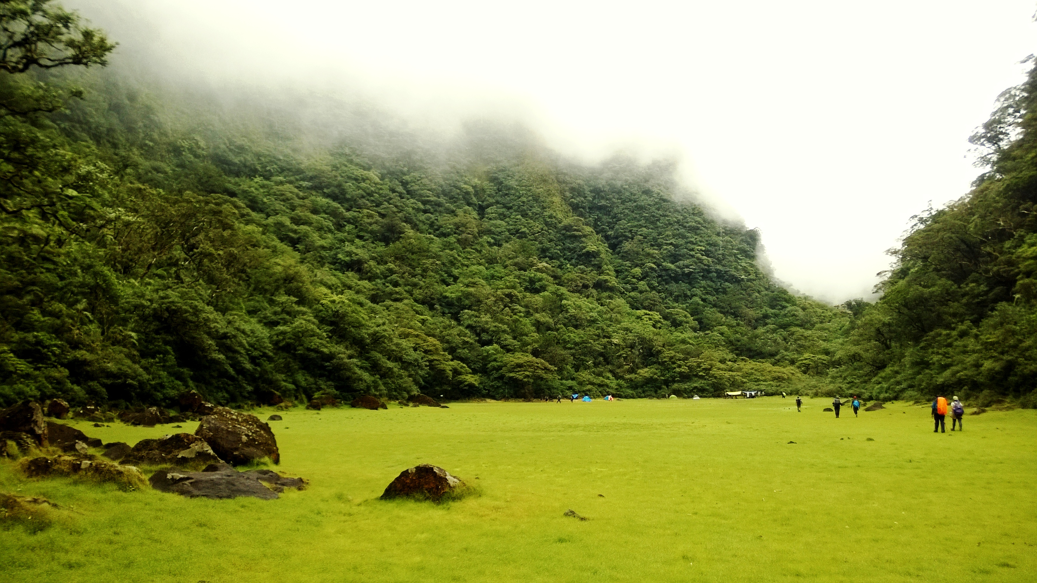 An old caldera, Tinagong Dagat, that becomes a lake during wet season.